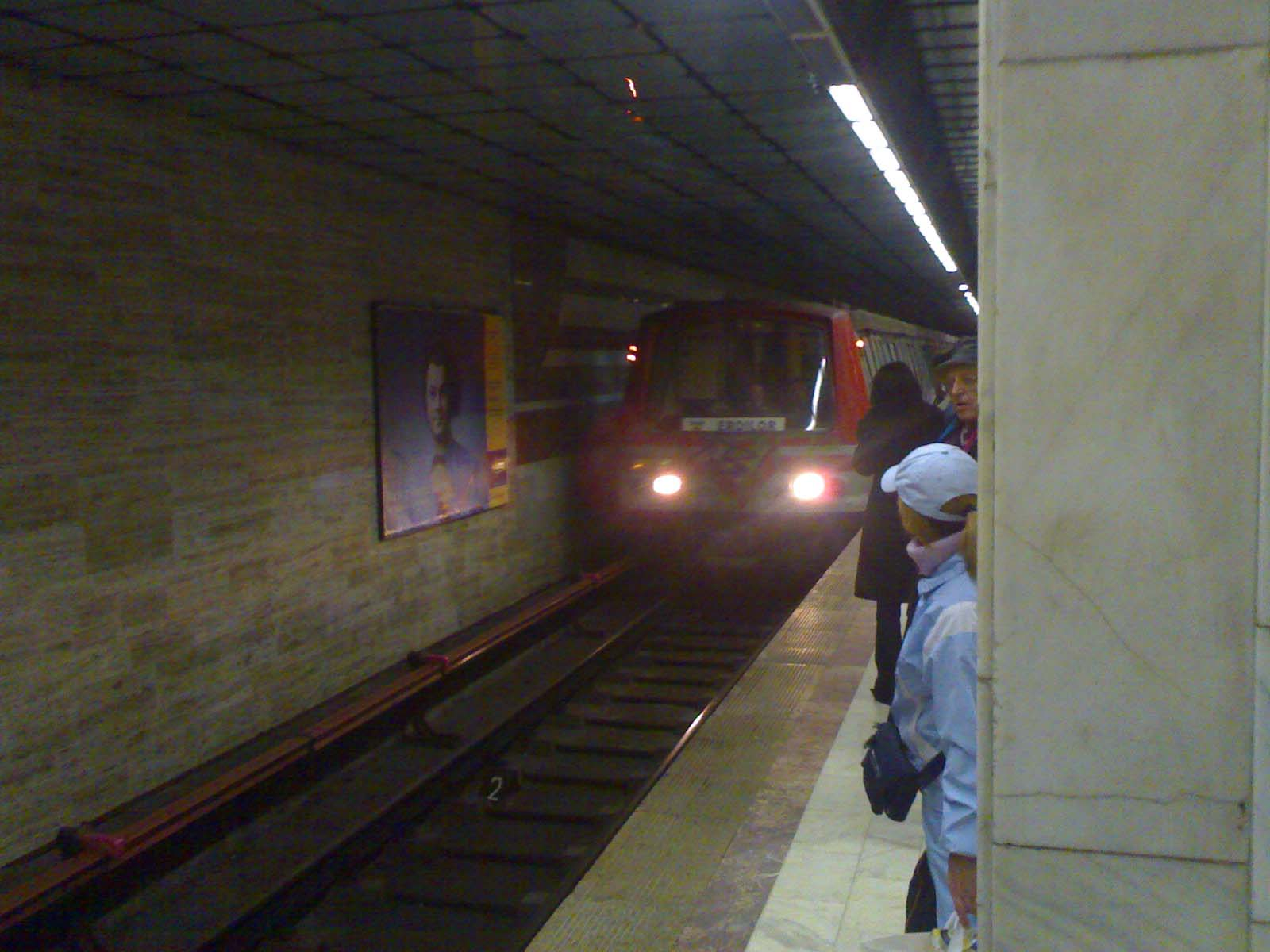 Armata Poporului metro station, Bucharest Source: Romanian Wikipedia, uploaded by User:Pixi, under the same title.